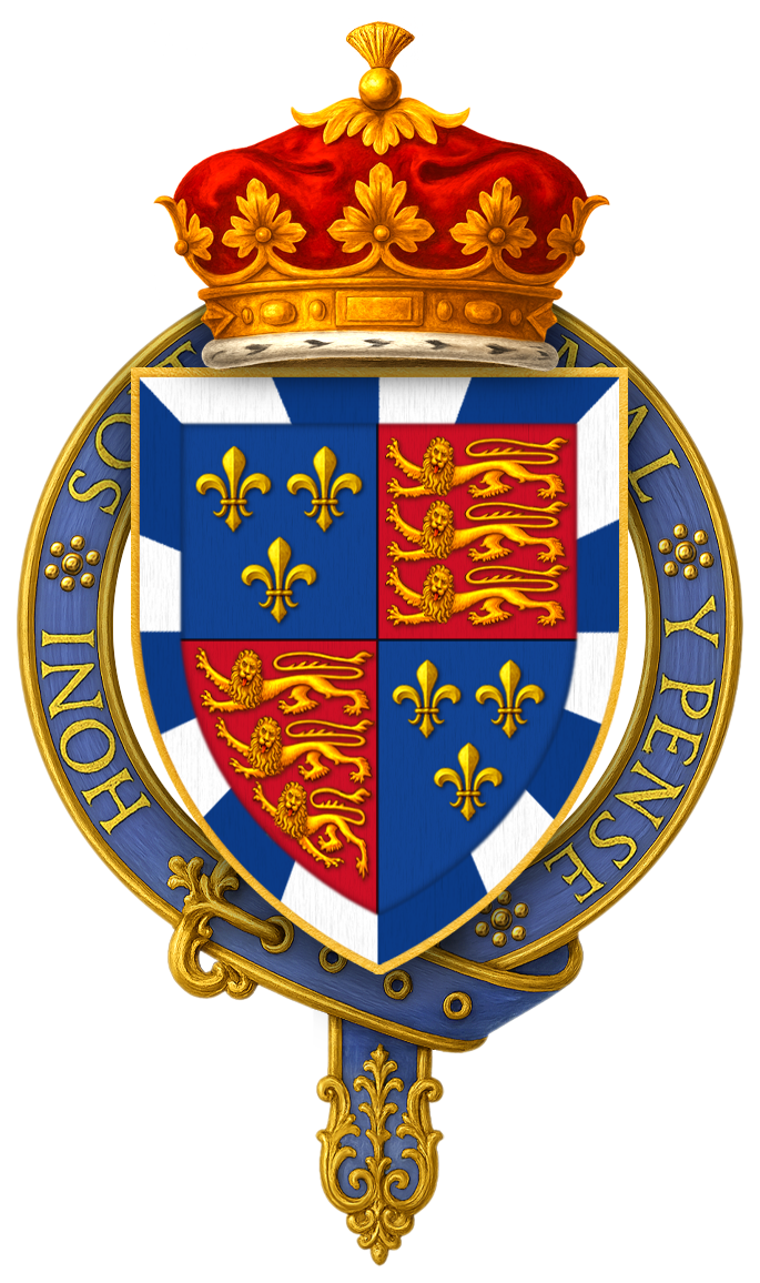 Shield of arms of Henry Somerset, 8th Duke of Beaufort, KG, as displayed on his Order of the Garter stall plate in St. George's Chapel.